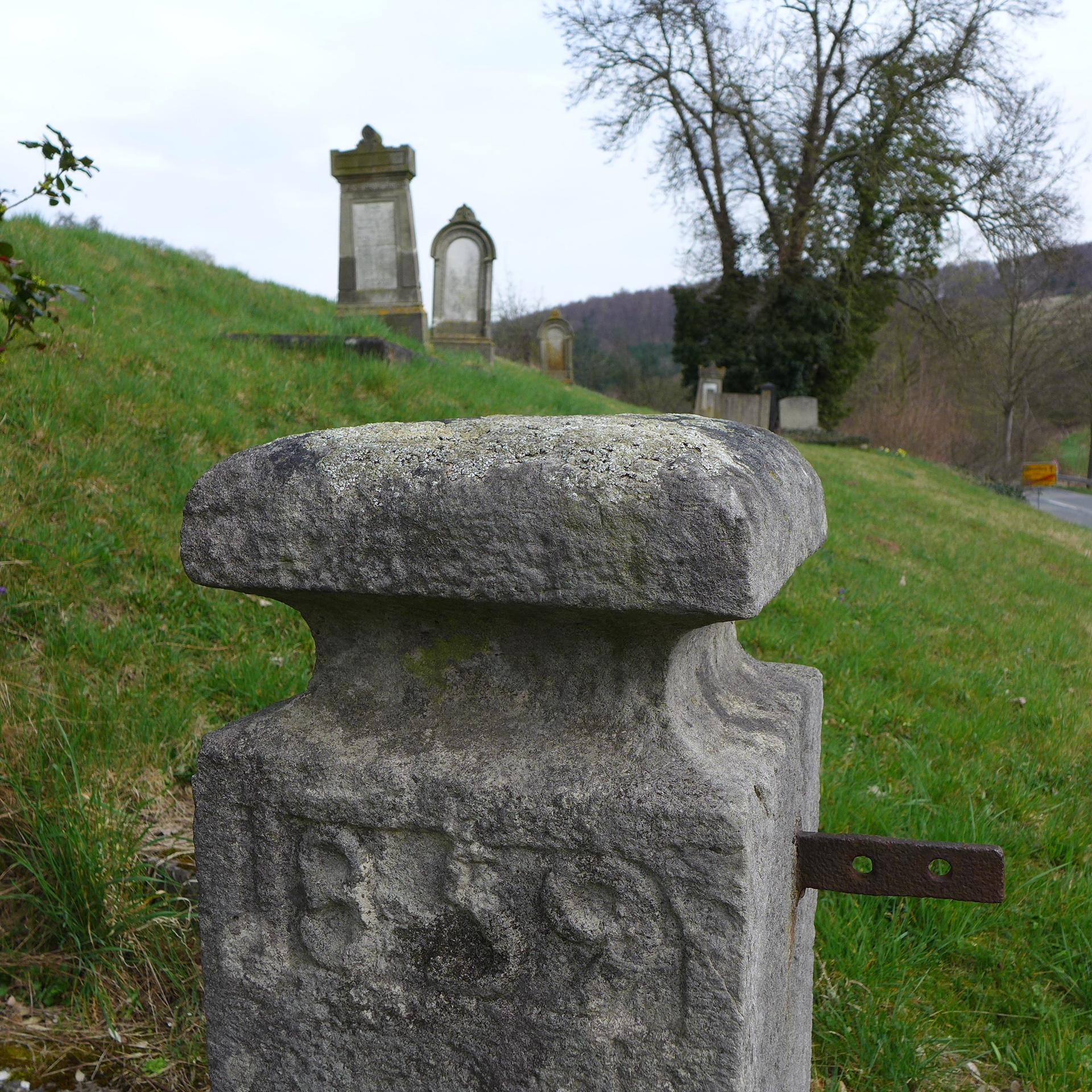 Klein Freden